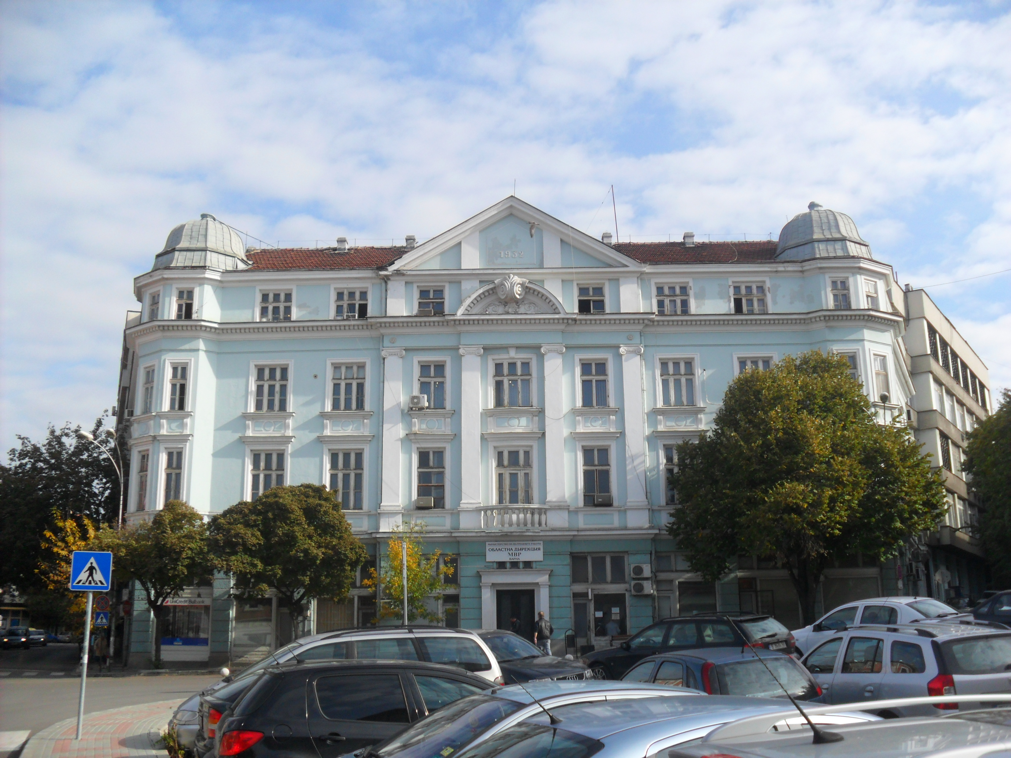 Building of MVR Varna